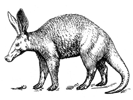 Leptorycteropus guilielmi